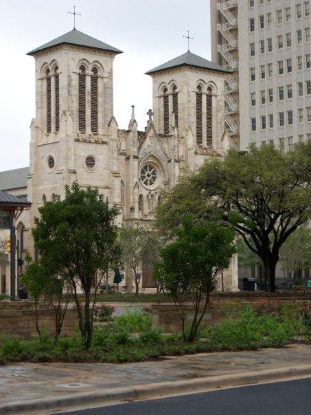 Daytime image of the Cathedral of San Fernando in San Antonio, Texas, United States